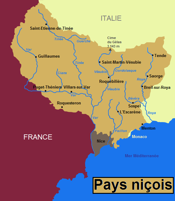 Map of the Comté de Nice/Contea di Nizza (now Provence, France)